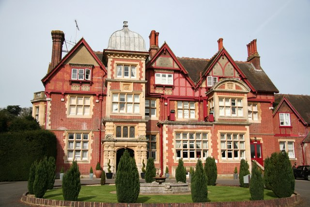 Pendley Manor Hotel Neo-Tudor mansion by John Lion for Joseph Grout Williams in 1872, it has been a country house hotel since 1987